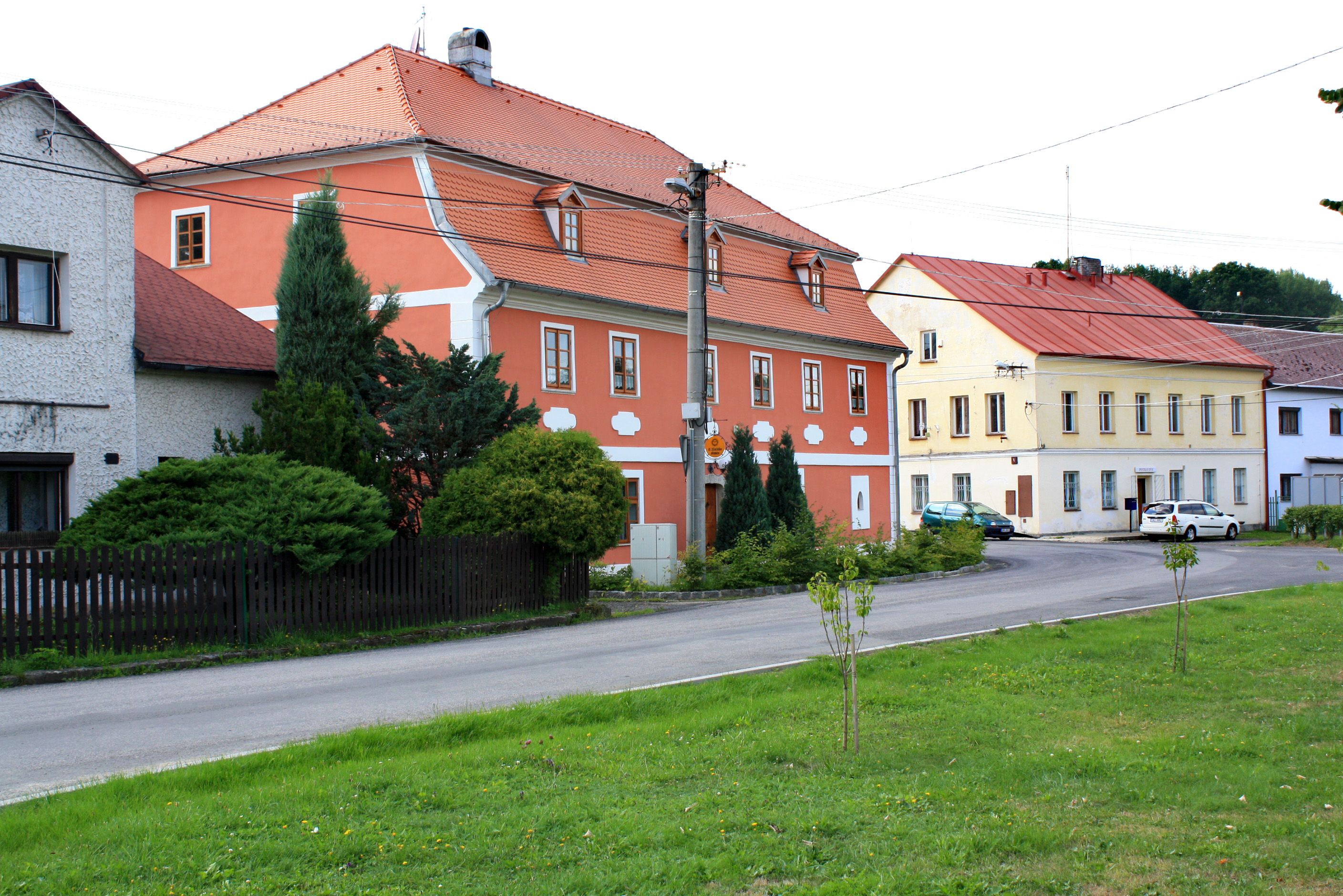 Common in Milíkov village, Czech Republic